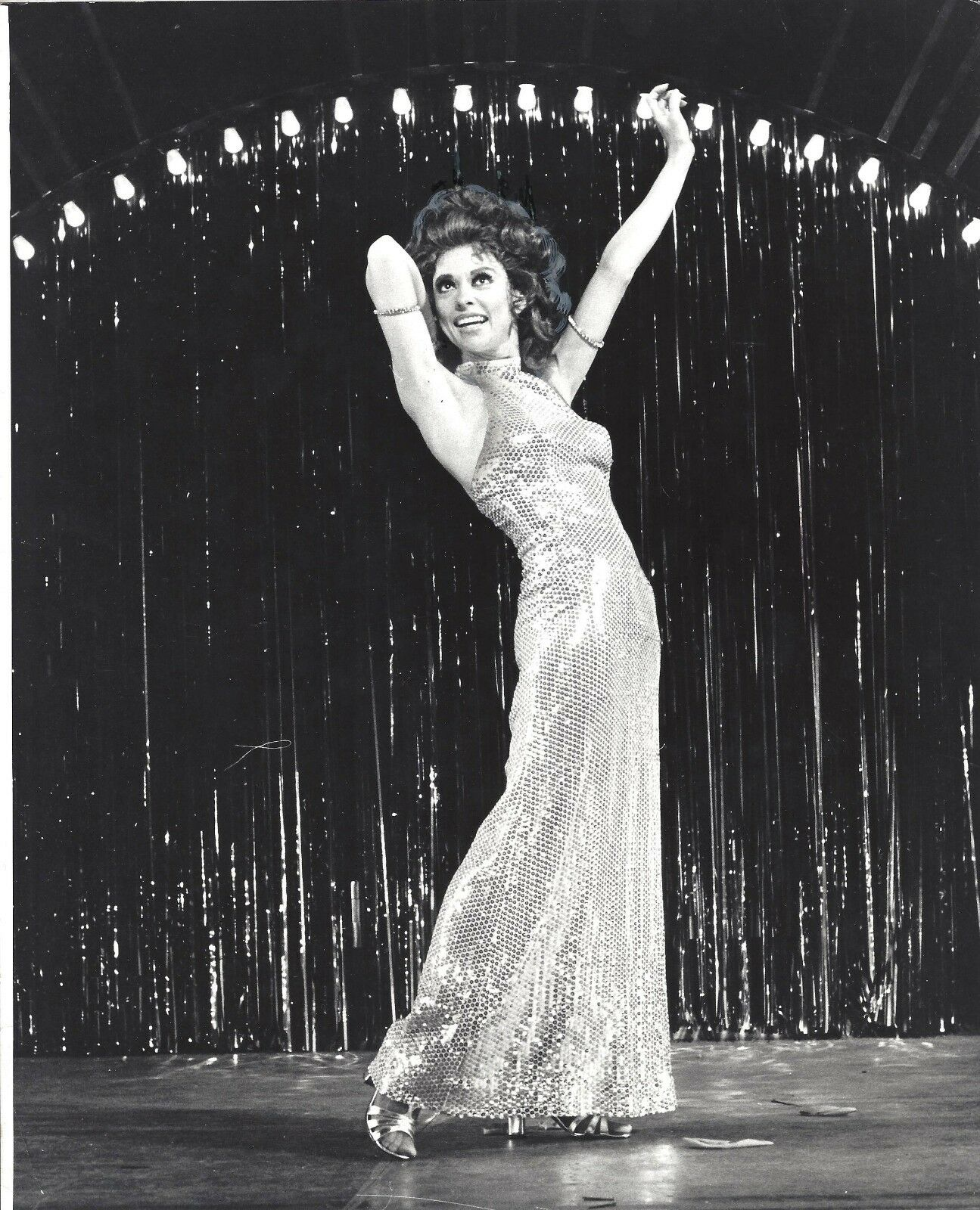 Rita Moreno in the Terrence McNally's play The Ritz, Broadway - publicity still